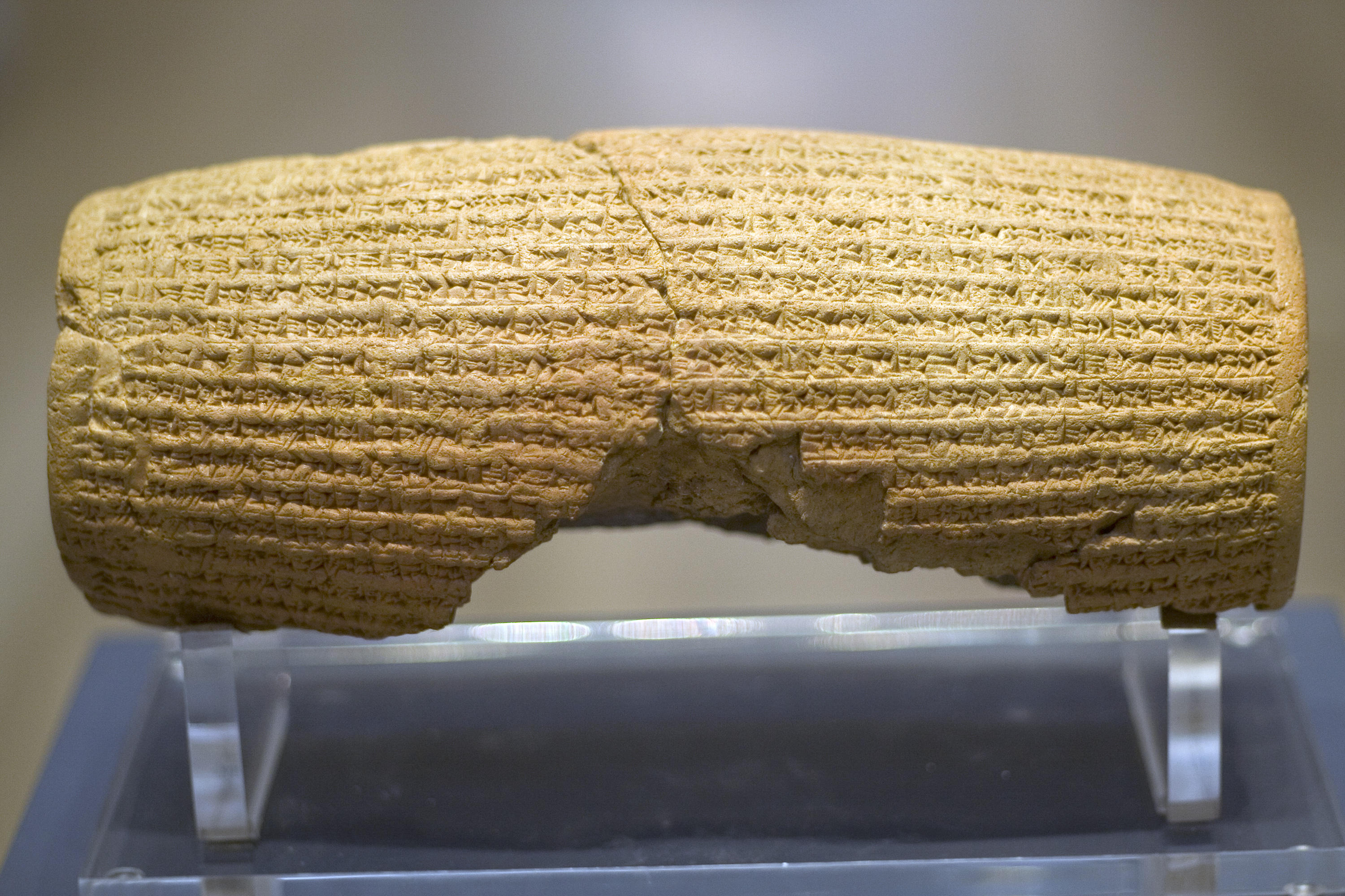 Reverse side of the Cyrus Cylinder